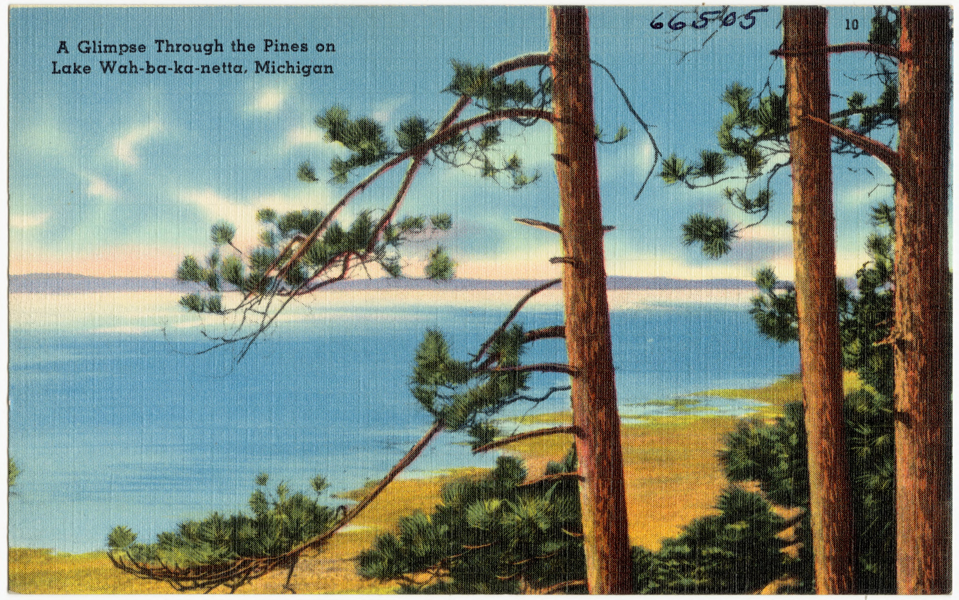 Title: A glimpse through the pines on Lake Wah-ba-ka-netta, Michigan (now called Green Lake, at Interlochen, Michigan) Subjects: Lakes & ponds Places: Michigan Notes: Title from item. Extent: 1 print (postcard) : linen texture, color ; 3 1/2 x 5 1/2 in. Accession #: 06_10_014817